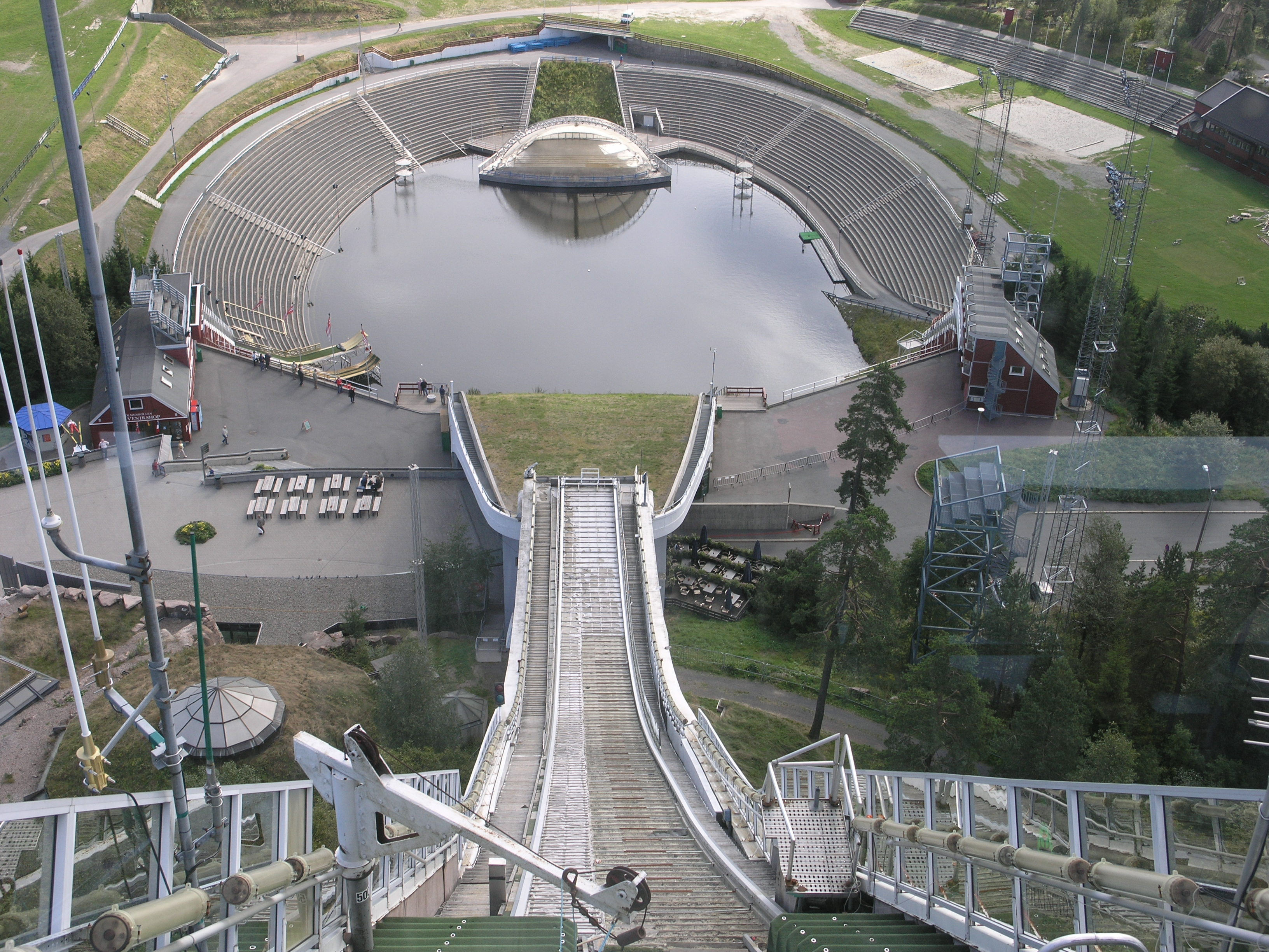 Holmenkollbakken Ski jump in Oslo